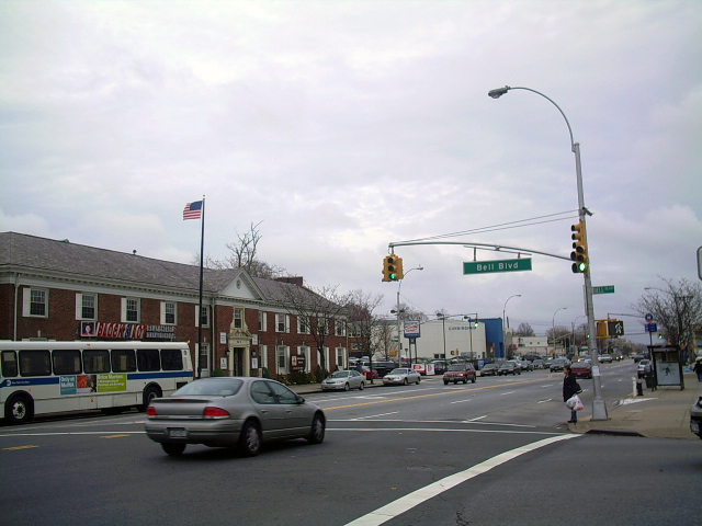 Northern Boulevard NY Route 25A intersecting with Bell Boulevard in Bayside, Queens.